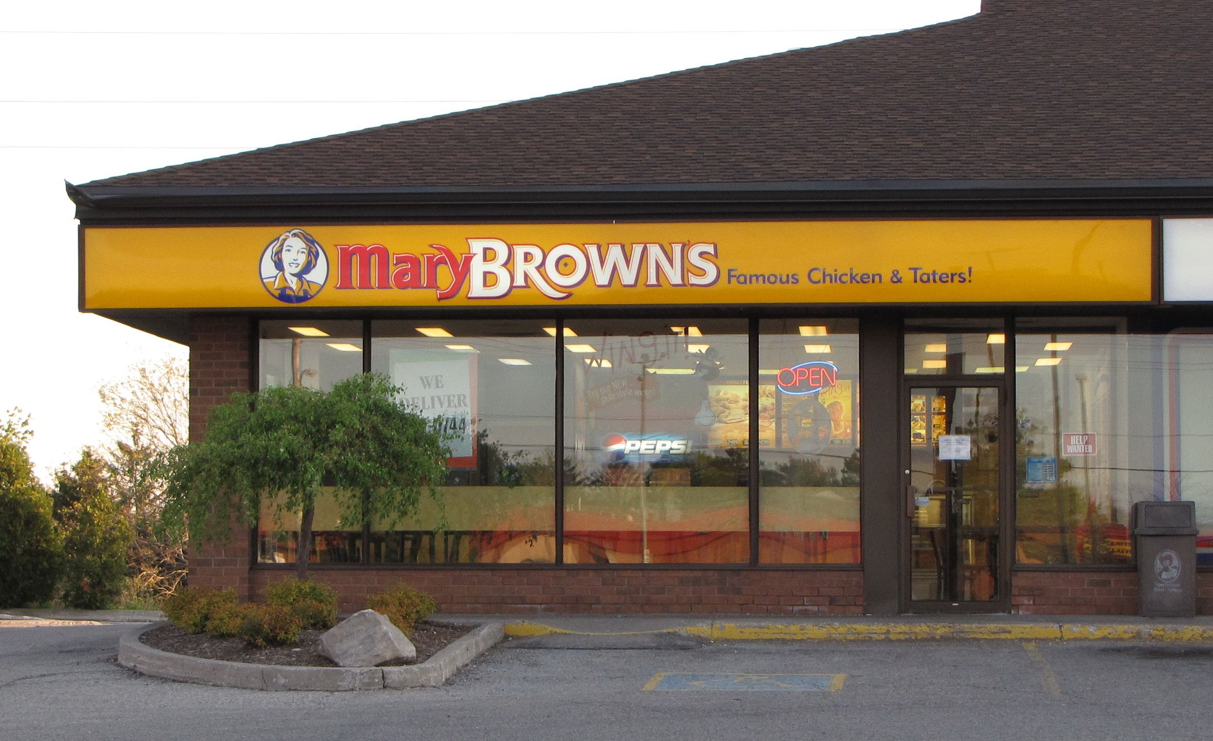 A Mary Browns restaurant, located in a strip mall in Guelph, ON